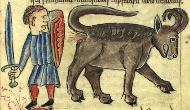 A bonnacon, from a medieval manuscript. Kongelige Bibliotek, Gl. kgl. S. 1633 4º, Folio 10r